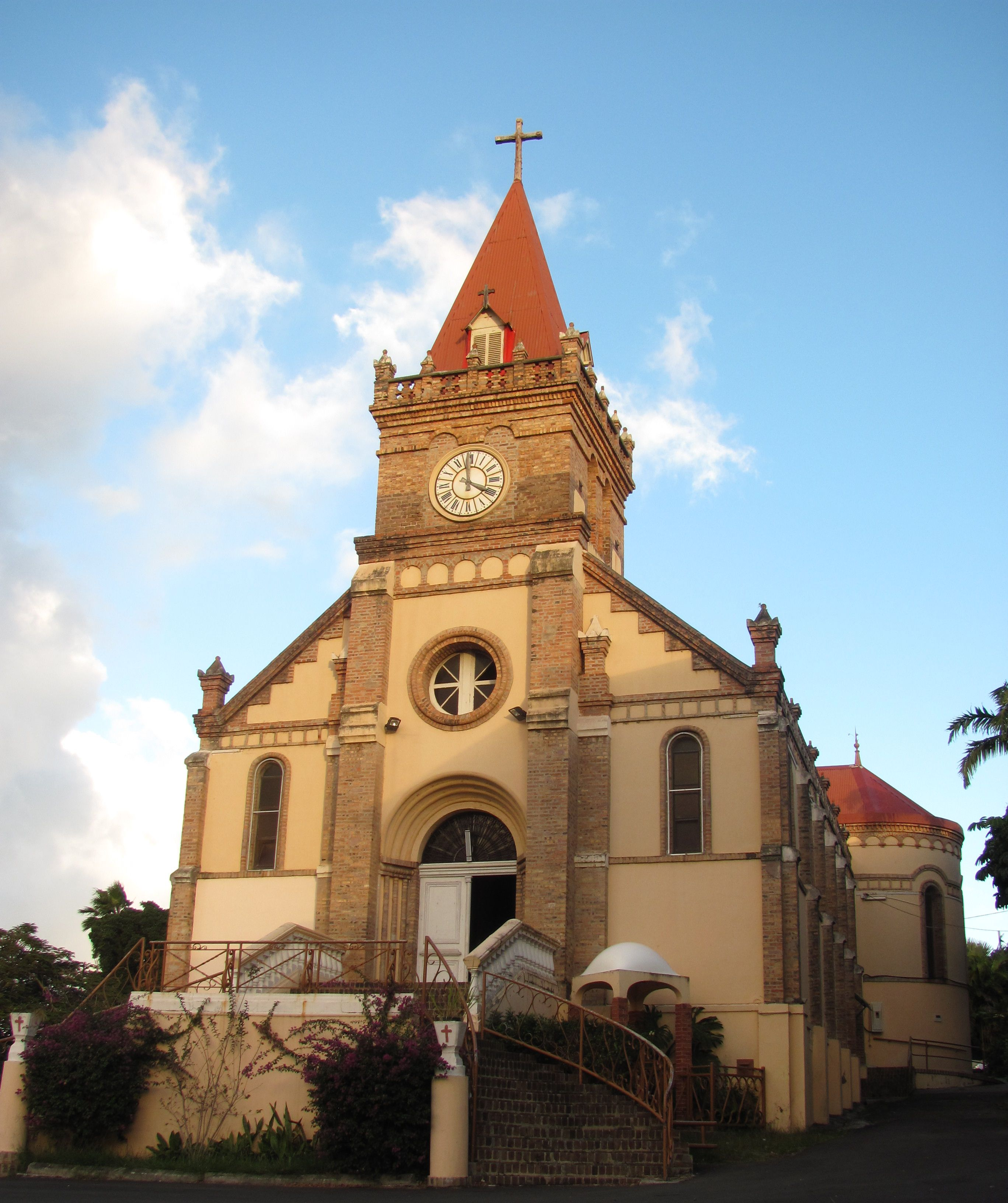 Church "Saint Jean Baptiste", Nouméa, New Caledonia